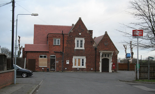 Bingham Railway Station This attractive station building, having been converted to business use, is now empty again.